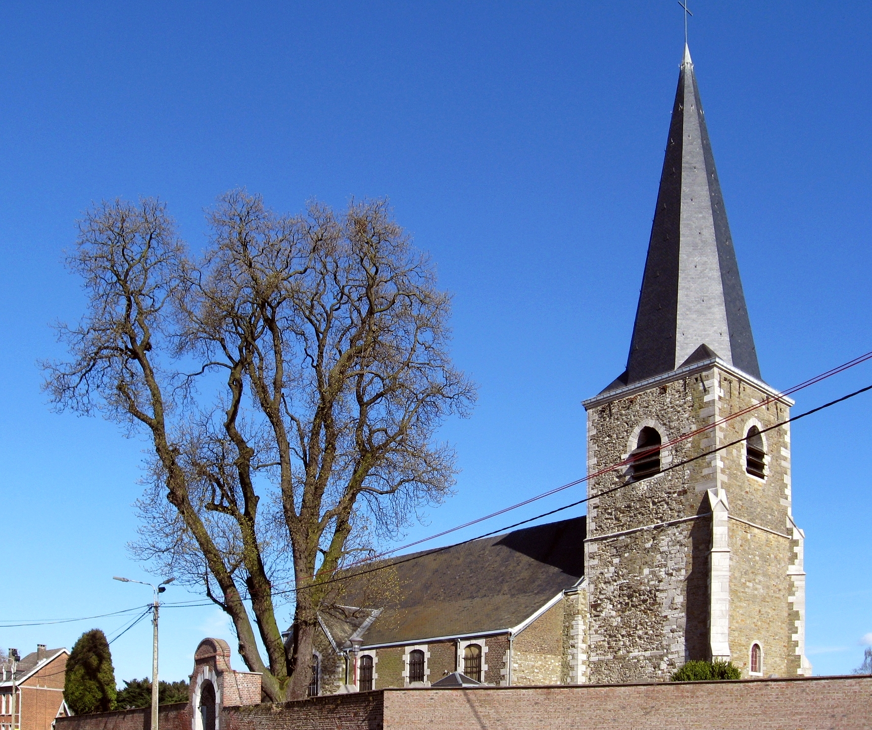 Church of Saint Agatha in Awans, Liège, Belgium